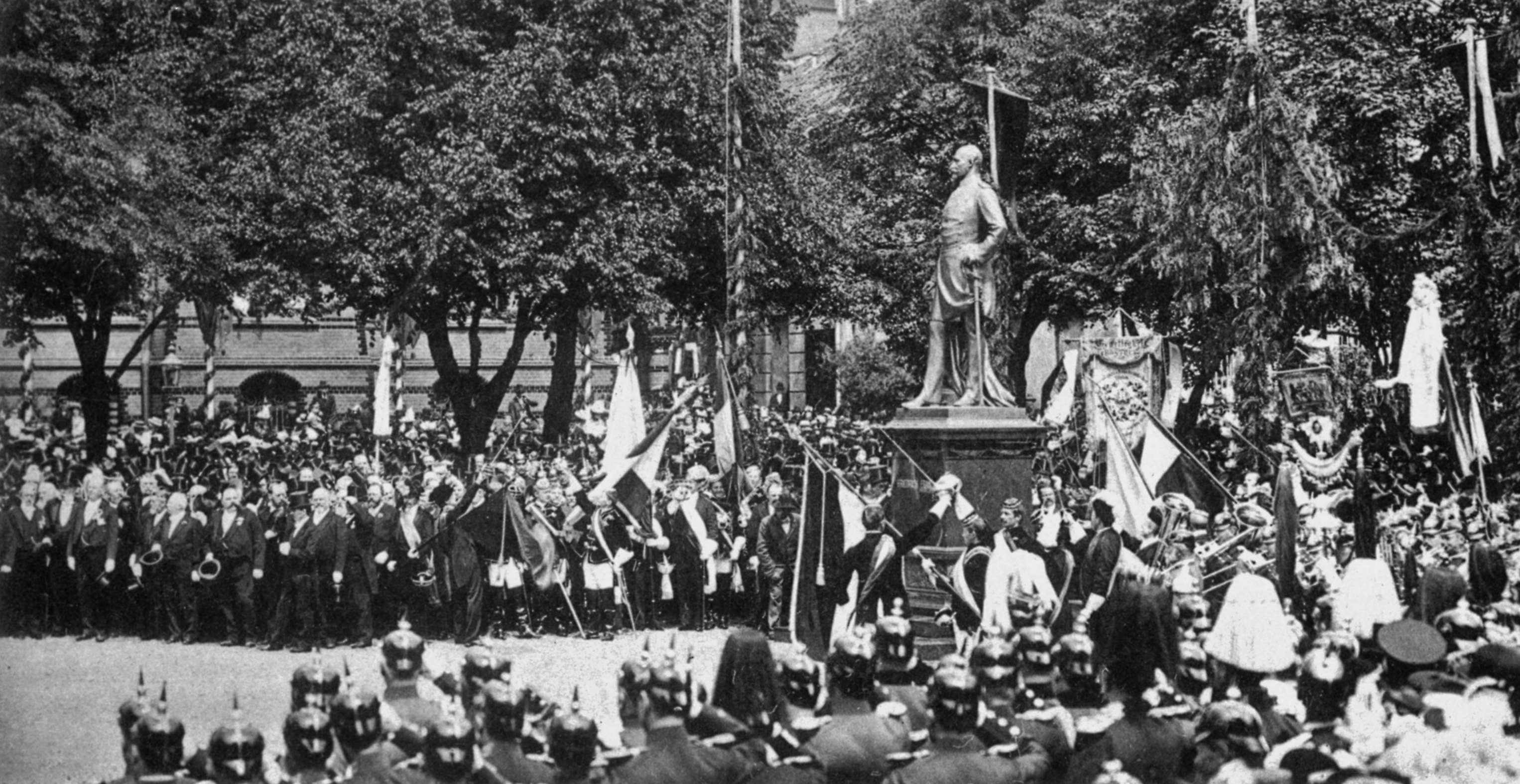 memorial to Grand Duke Friedrich Franz III. von Mecklenburg-Schwerin in Rostock, sculpted by Wilhelm Wandschneider, unveiled in 1901, destroyed in 1941/43